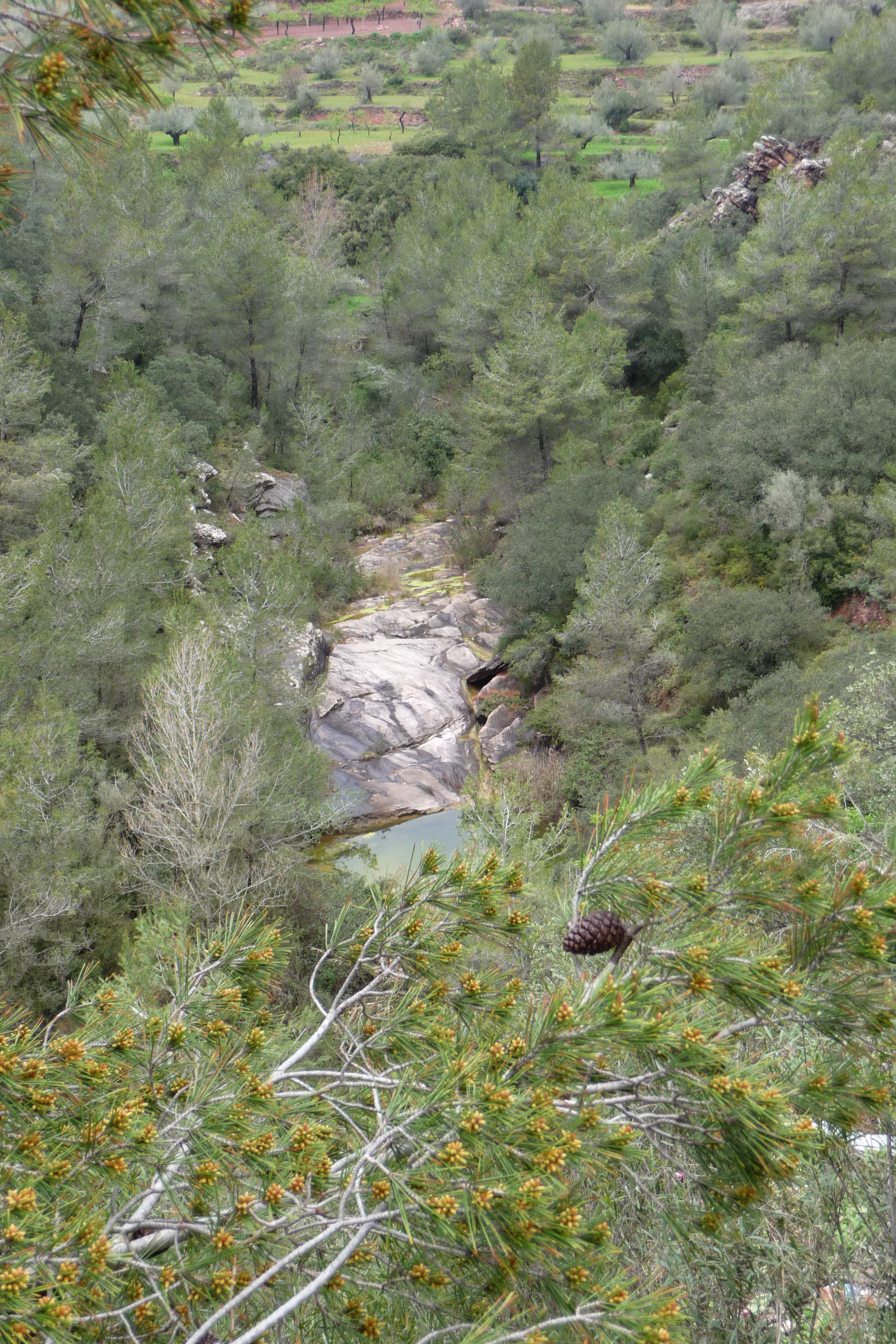 Forest in Spanish municipal Tuéjar.